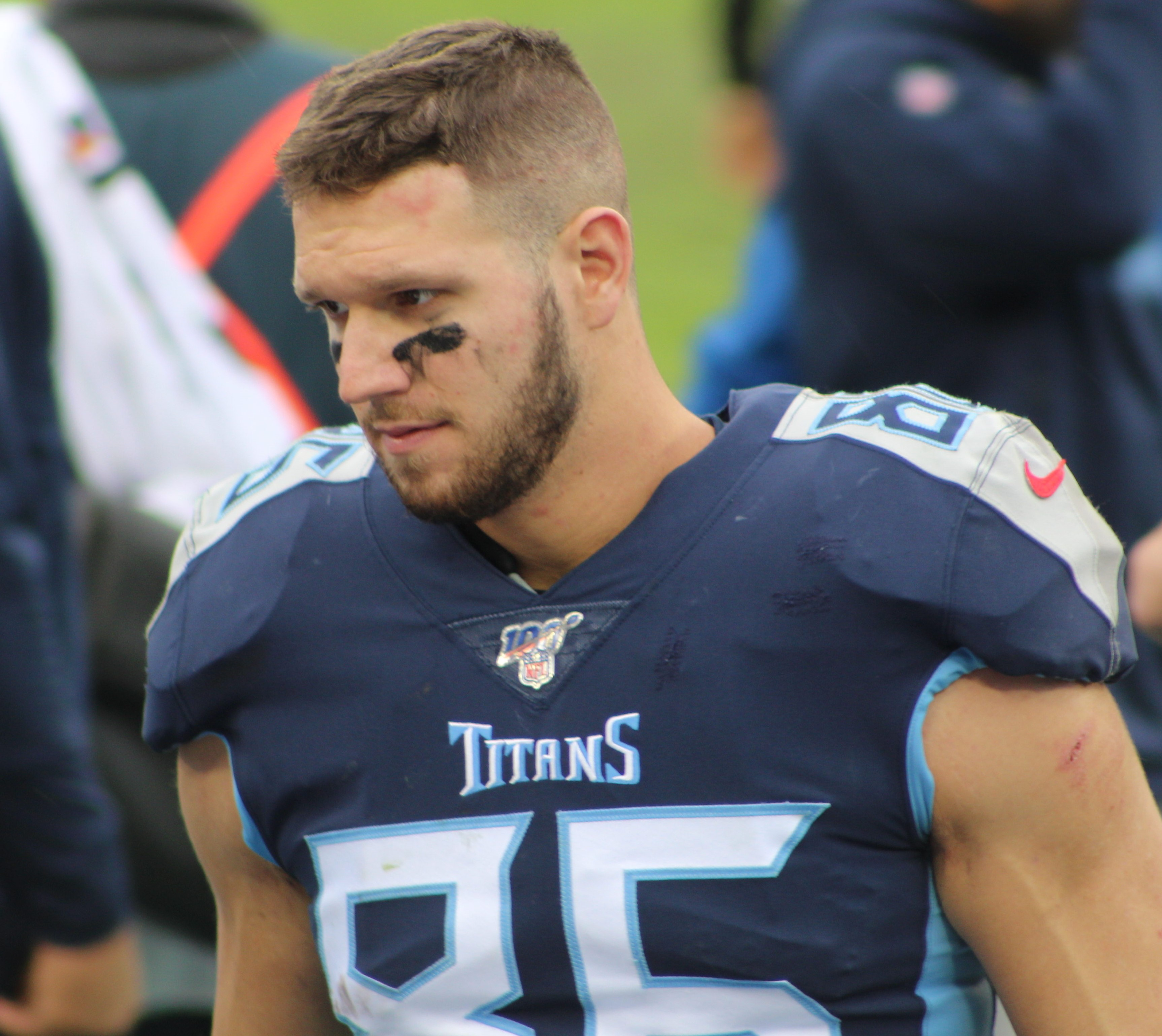 Firkser with the Titans on December 22, 2019